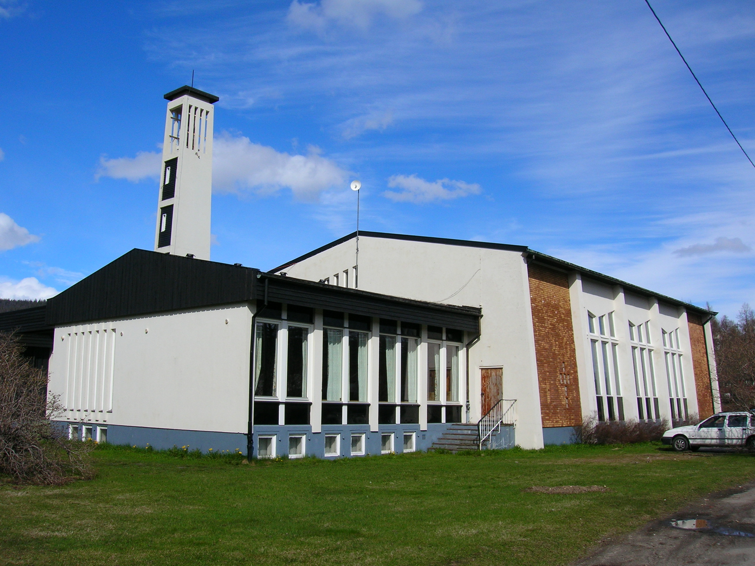 Gruben church, Rana municipality, Nordland, Norway, Photo May 14, 2007 with a Nikon Coolpix 5600 5,1 Megapixel camera.